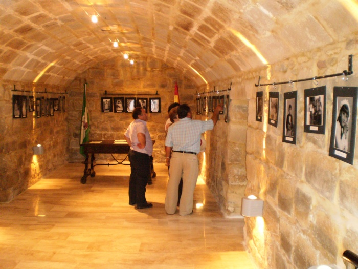 dcscscscs